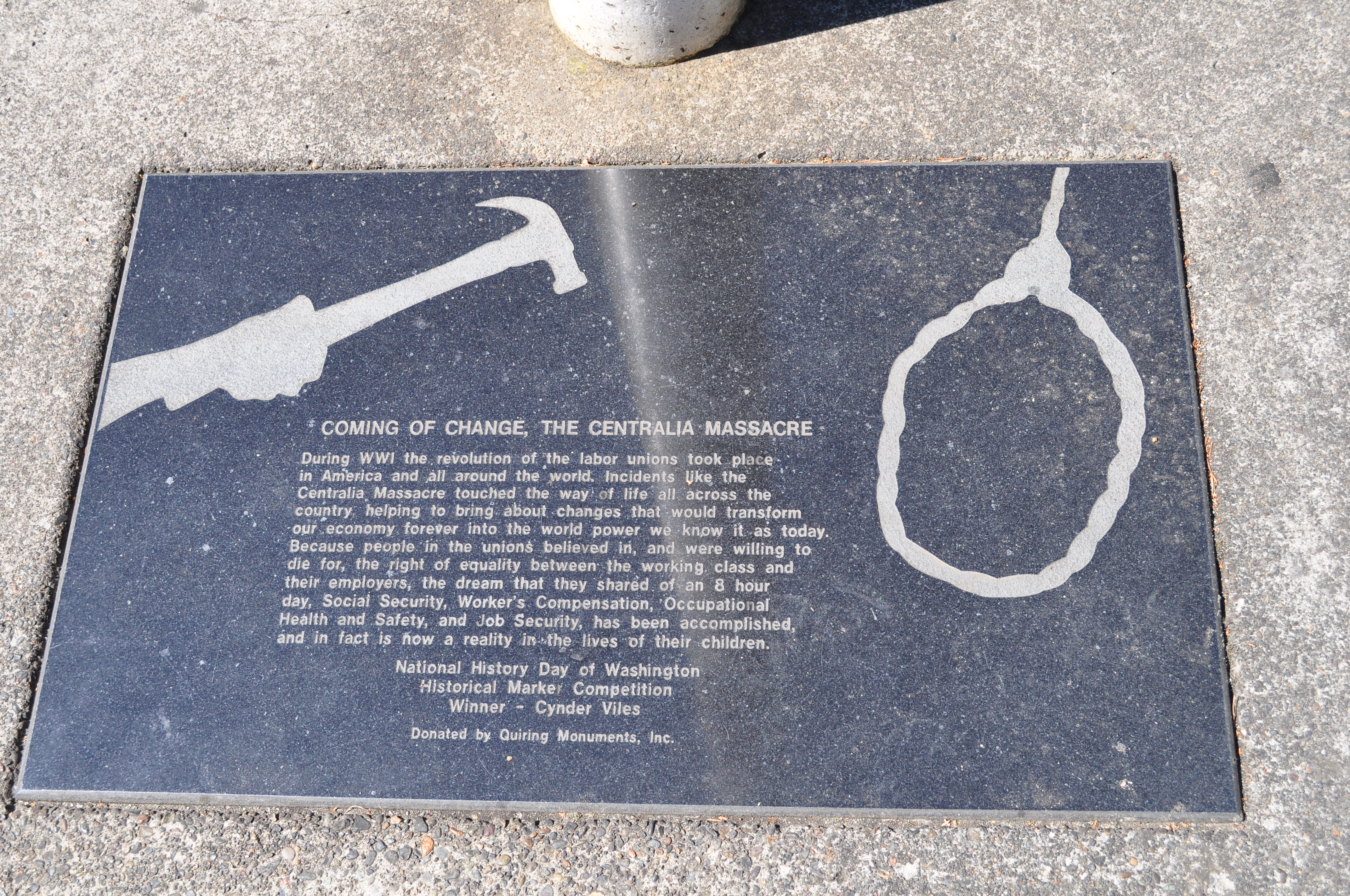 Plaque in George Washington Park, Centralia, Washington, USA commemorating the Centralia Massacre as an event in labor history.